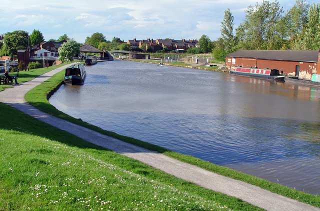 Chester Canal. The width of the canal gives the boats an opportunity to turn round.